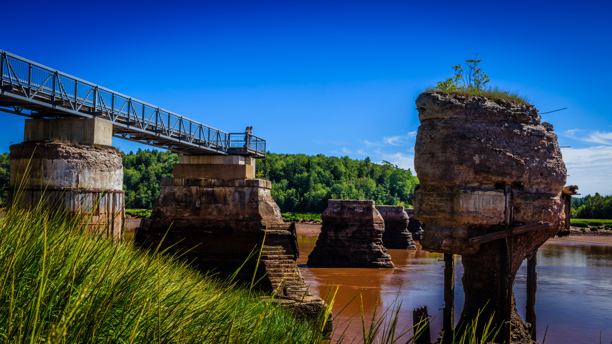 An observation deck, remains of a ruined bridge and flowerpot geological formations can all be found at this centre. It is along the Shubenacadie River and its red clay slopes. You might get muddy if you stray off the beaten path so dress appropriately.